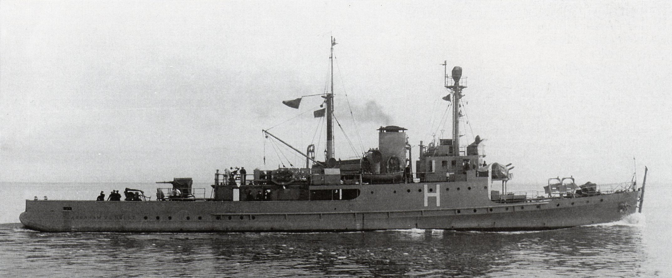 HNLMS Abraham van der Hulst prior to being struck by a mine in 1939